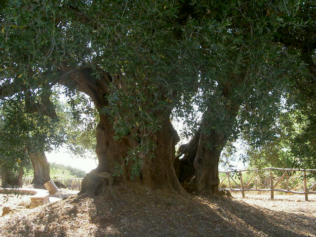 A secular Olive tree (Olea europaea) in the cilentan town of Ascea, Campania region, Italy.